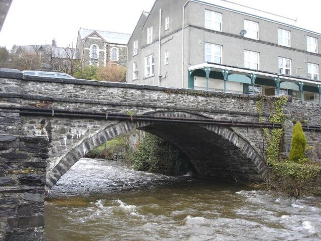 Afon Crafnant. The river at it flows under the bridge through the centre of Trefriw